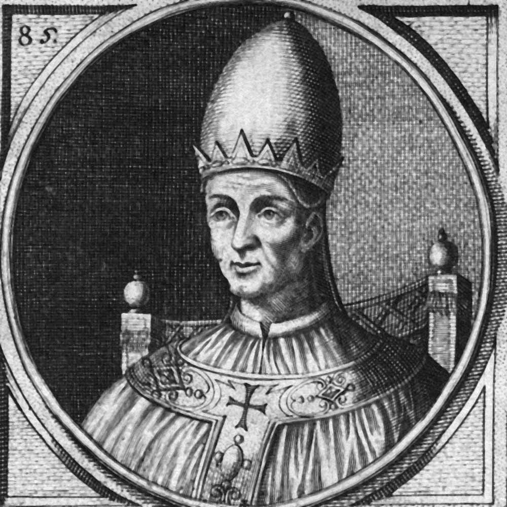 Old painting from Pope Sergius I stylus of paintings in 16th hundred, maybe older